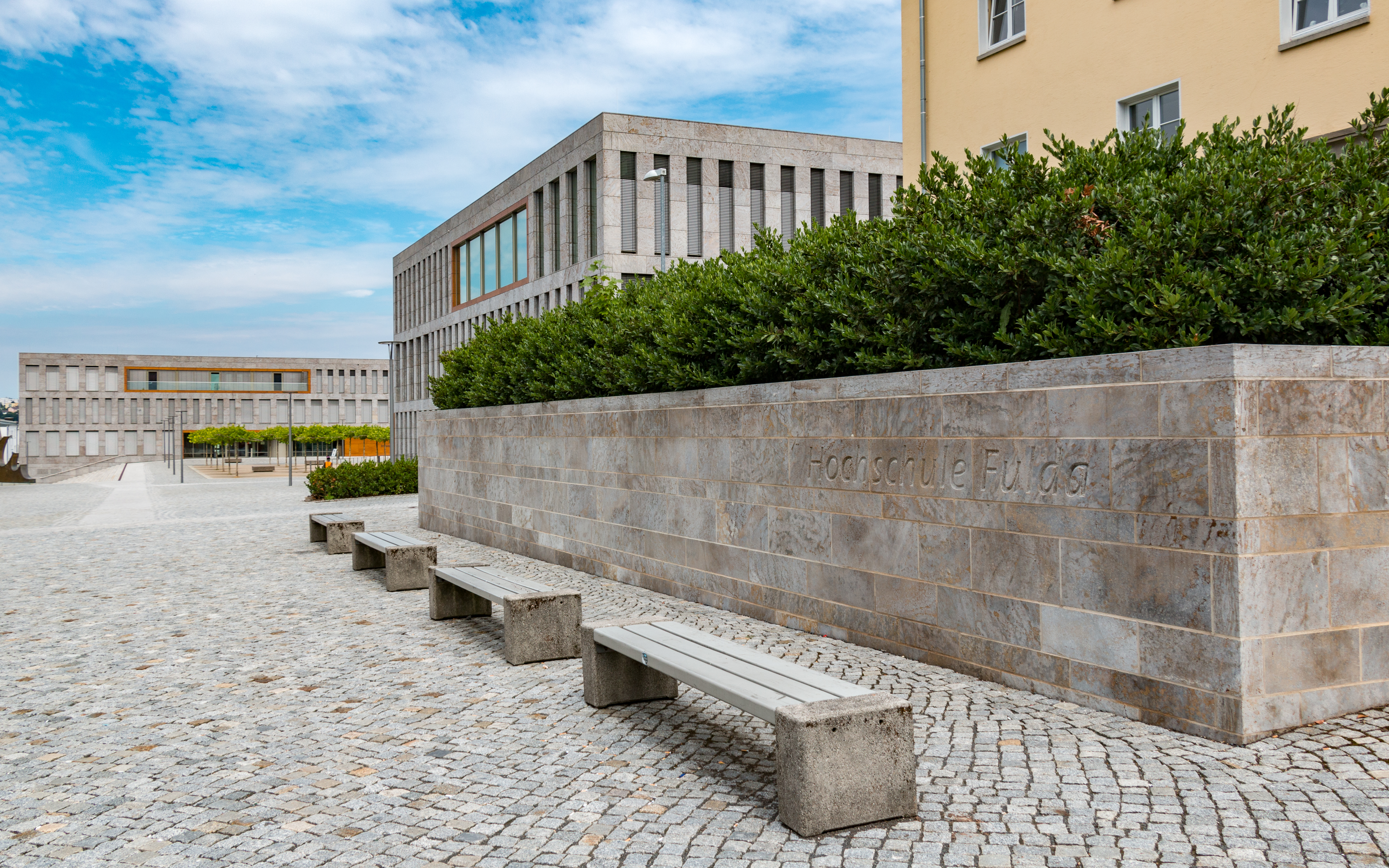 Campus of the Fulda University of Applied Sciences